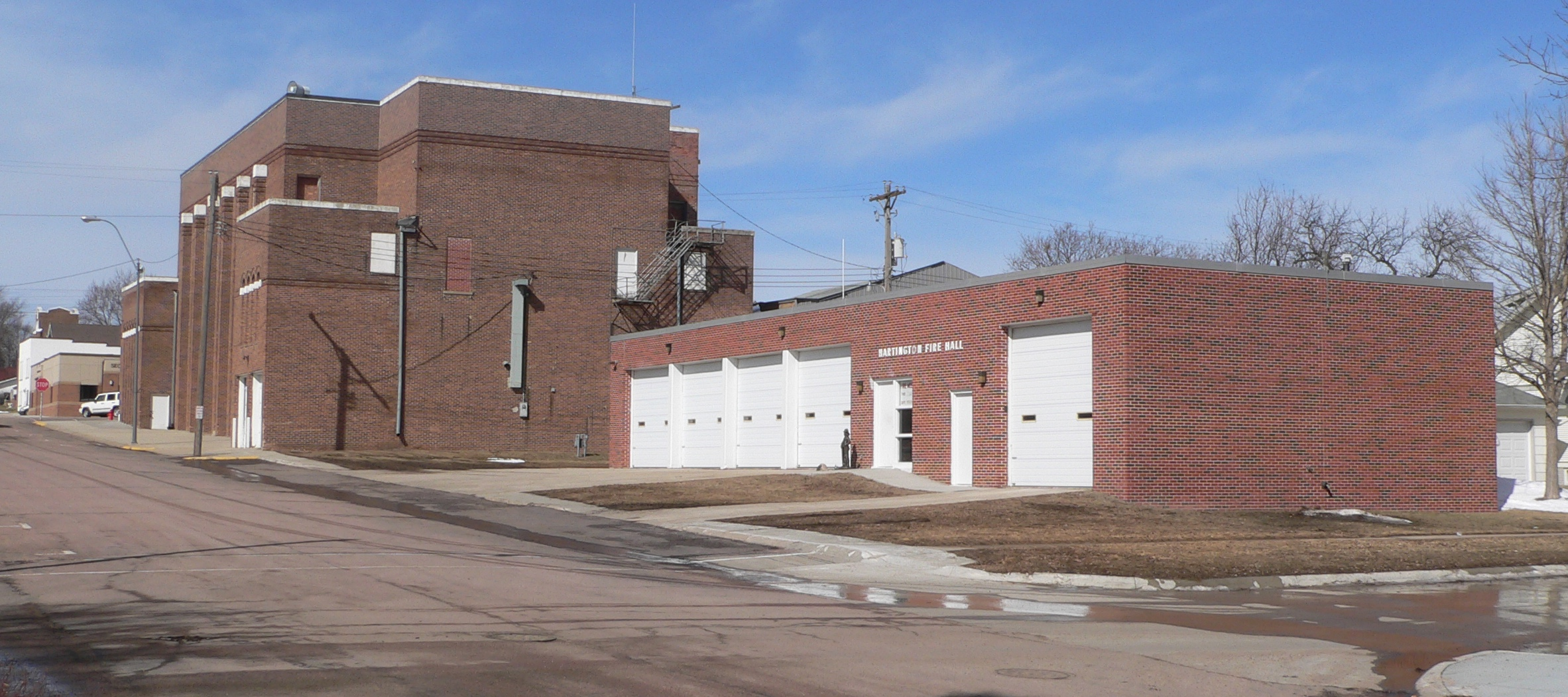 Fire hall and city auditorium in Hartington, Nebraska; seen from the southeast.